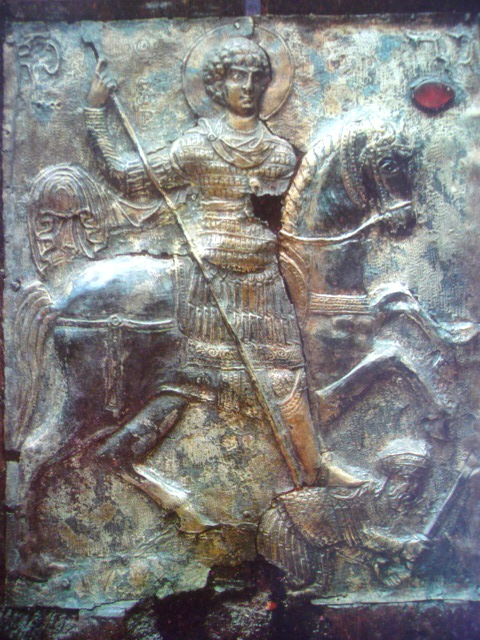 St George of Labechina, Georgia, second decade of the 11th century. Transcaucasia, nationalism and social change: essays in the history of Armenia, Azerbaijan, and Georgia (1996), p. 19: "the nearly contemporary (to the 11th c. Nikortsminda icon) Labechina icon among others, directly reproduces that of the representation of Ahura-Mazda trampling over the demonic Ahreman" "An interesting attempt at blending banded and riveted lamellar armour is shown on the Labechina icon of equestrian St George, [fig. 14], dating from the second decade of the 11th century. Here on a banded klibanion (as well as on kremasmata) we see plates with (upper - lower) rivets of an earlier type, which later were completely superseded by plates with riveting in their upper part." Mamuka Tsurtsumia, The Evolution of Splint Armour in Georgia and Byzantium, Lamellar and Scale in the 10th-12th Centuries [1]